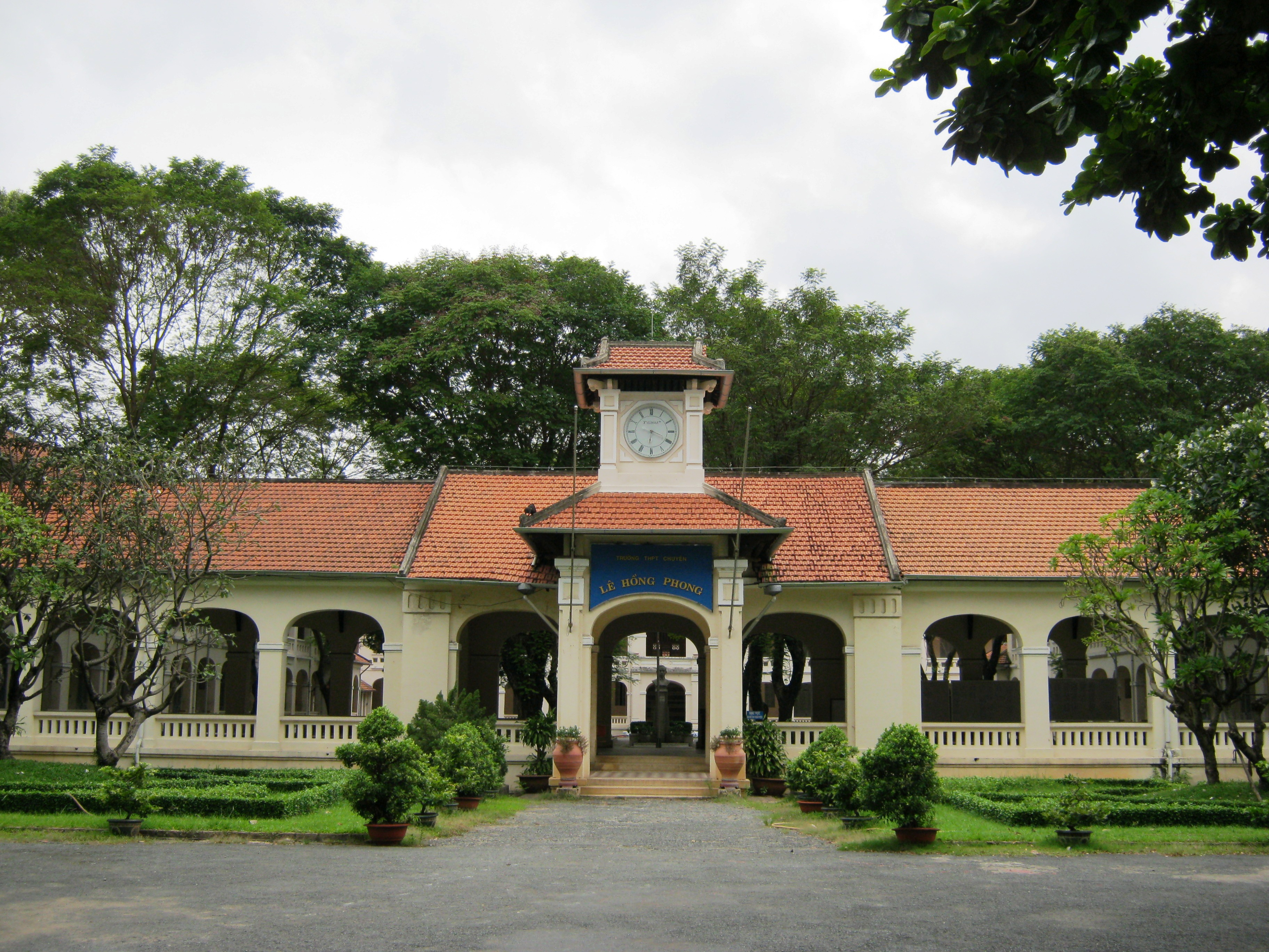 High school named after Petrus Truong Vinh Ky in Saigon, now is Le Hong Phong High school